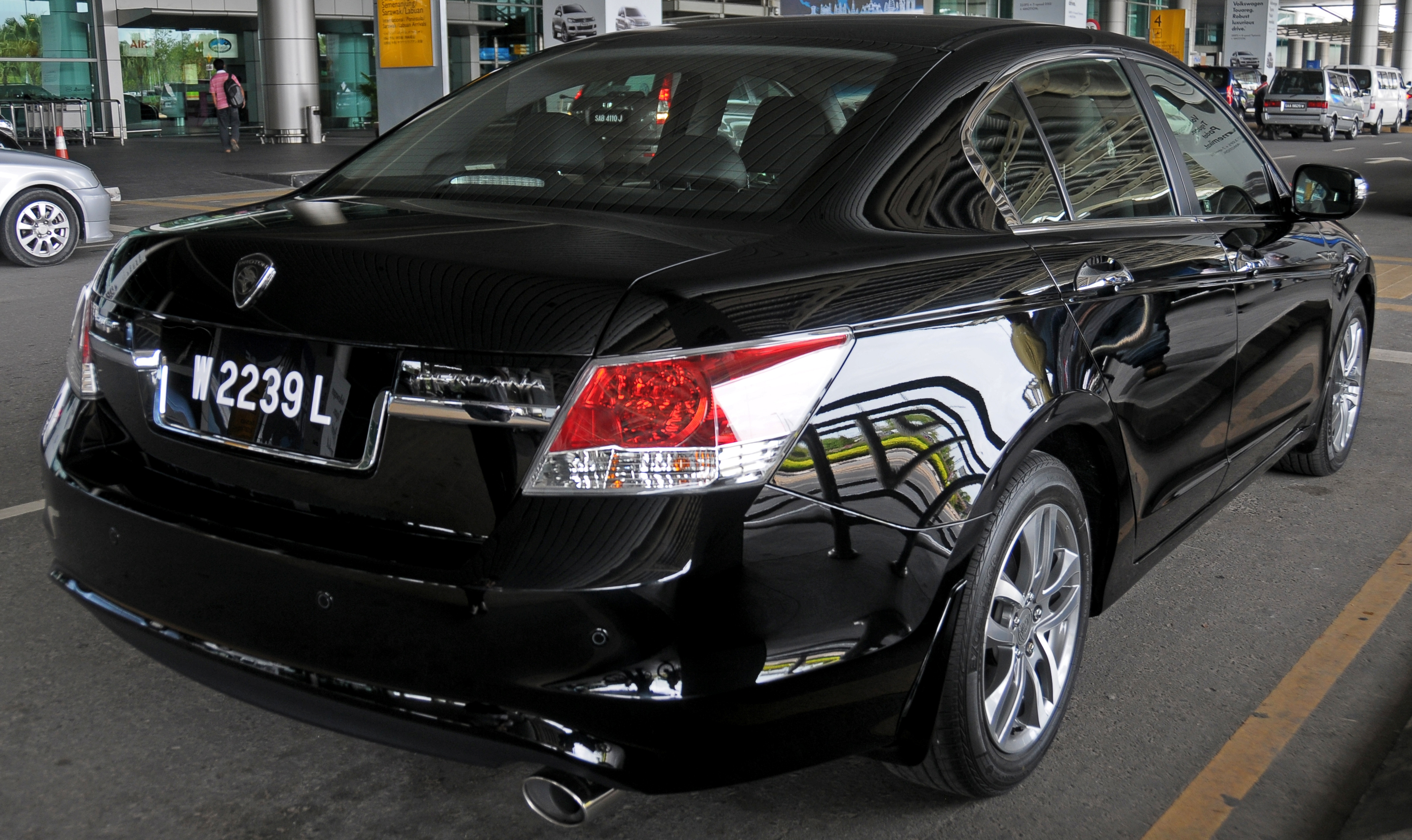 2014 Proton Perdana 2.4P in Kota Kinabalu, Malaysia. Colour : Tranquility Black Designed in Japan , Localized & Manufactured in Malaysia